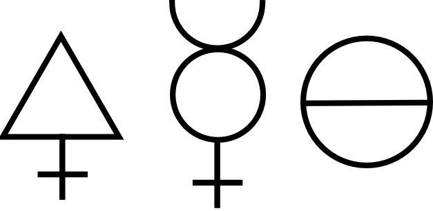 Symbols of three basic principles Česky: Symboly tří základních alchymistických prinicpů